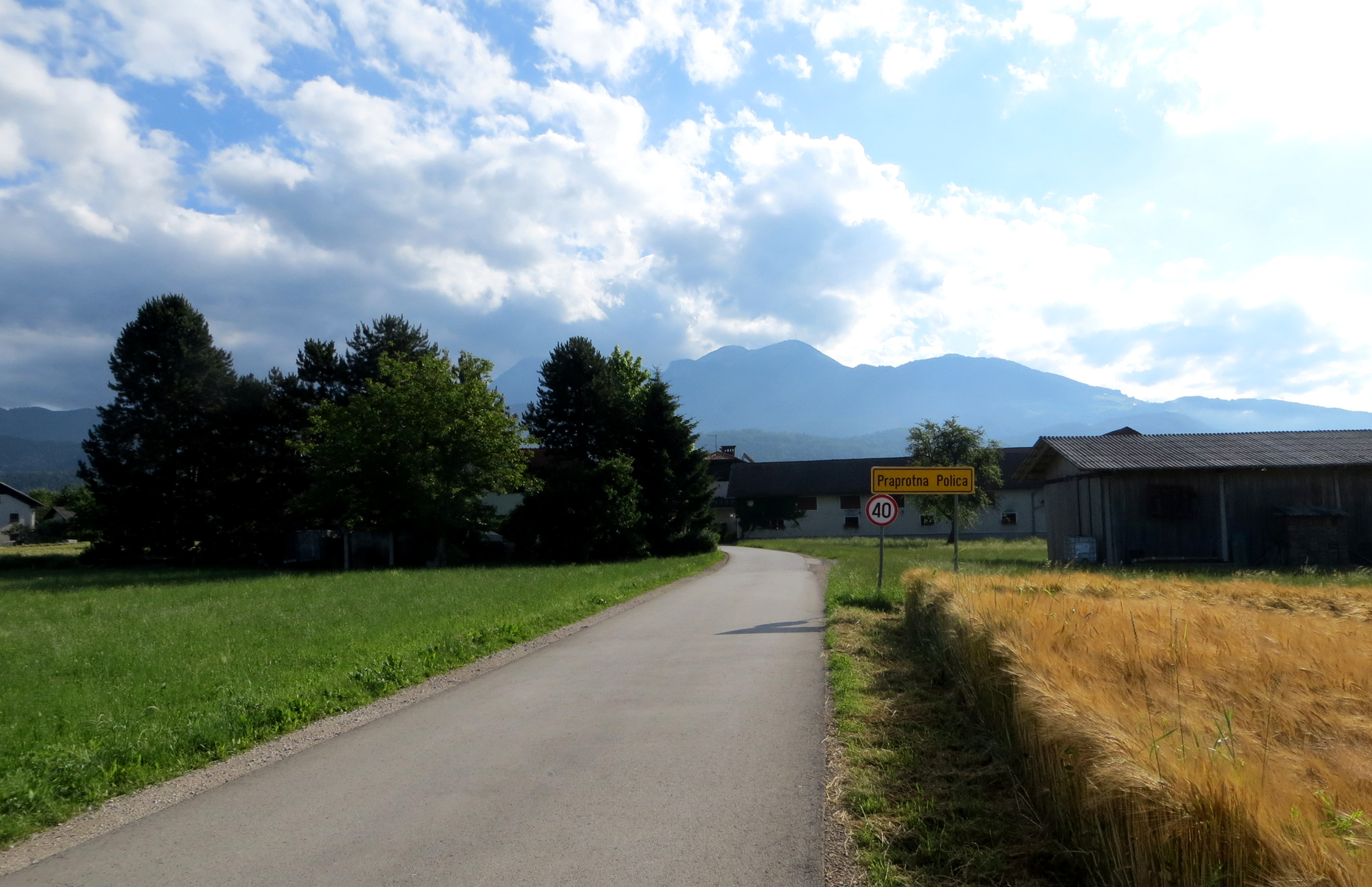 Praprotna Polica, Municipality of Cerklje na Gorenjskem, Slovenia